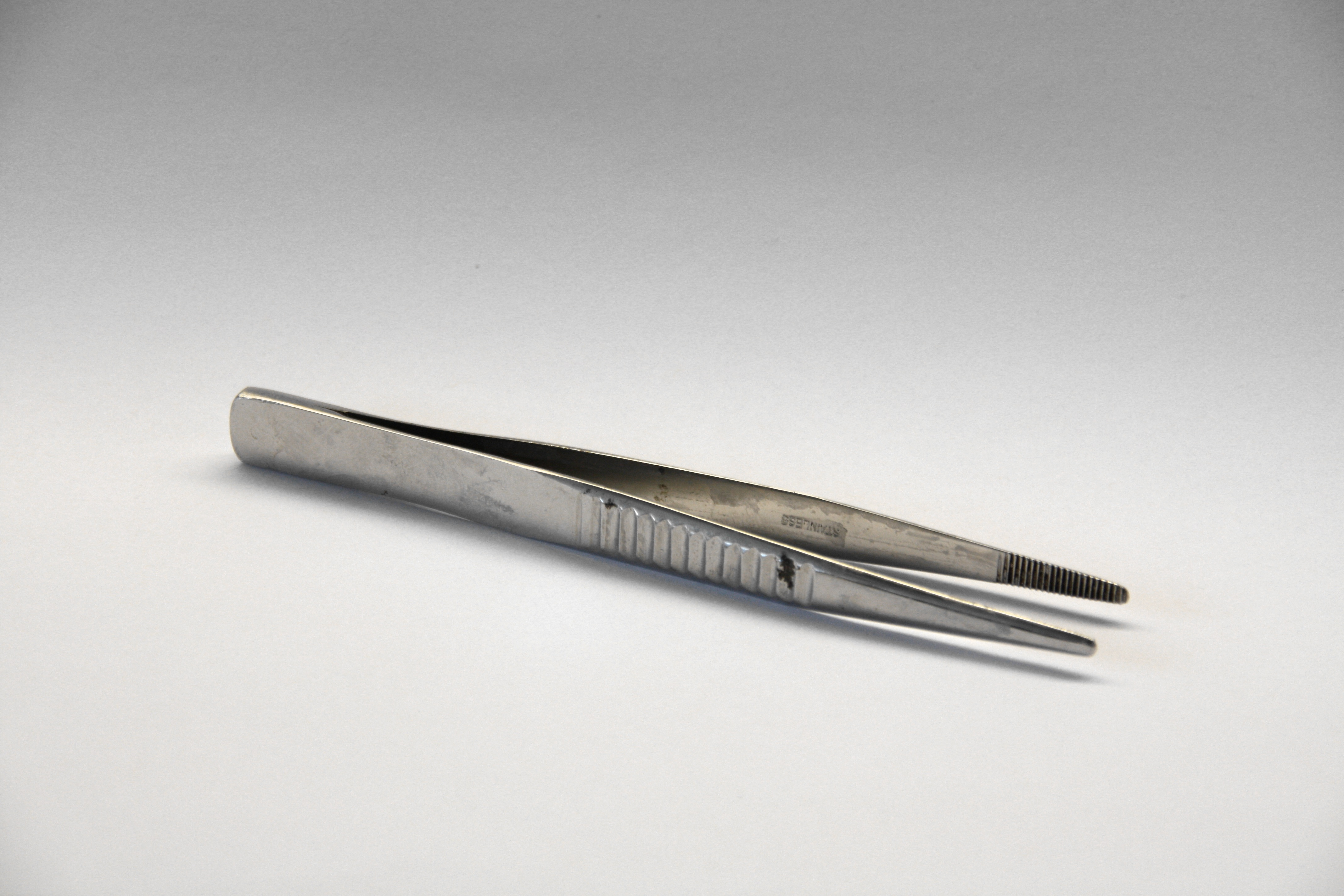 Basic blunt-nosed scientific forceps.